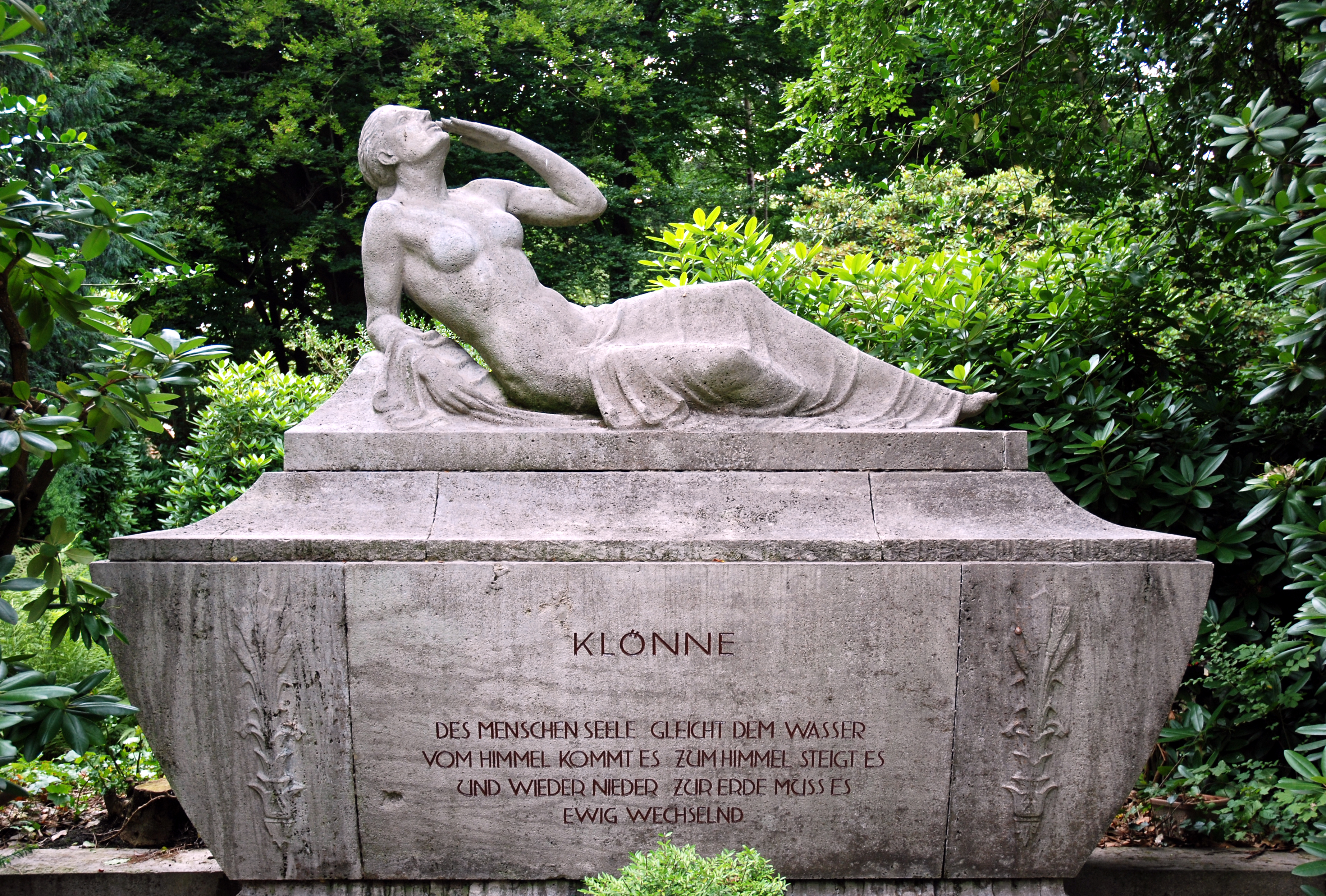 Dortmund, Germany, cemetery «Ostfriedhof», sculpture on the grave of family Klönne